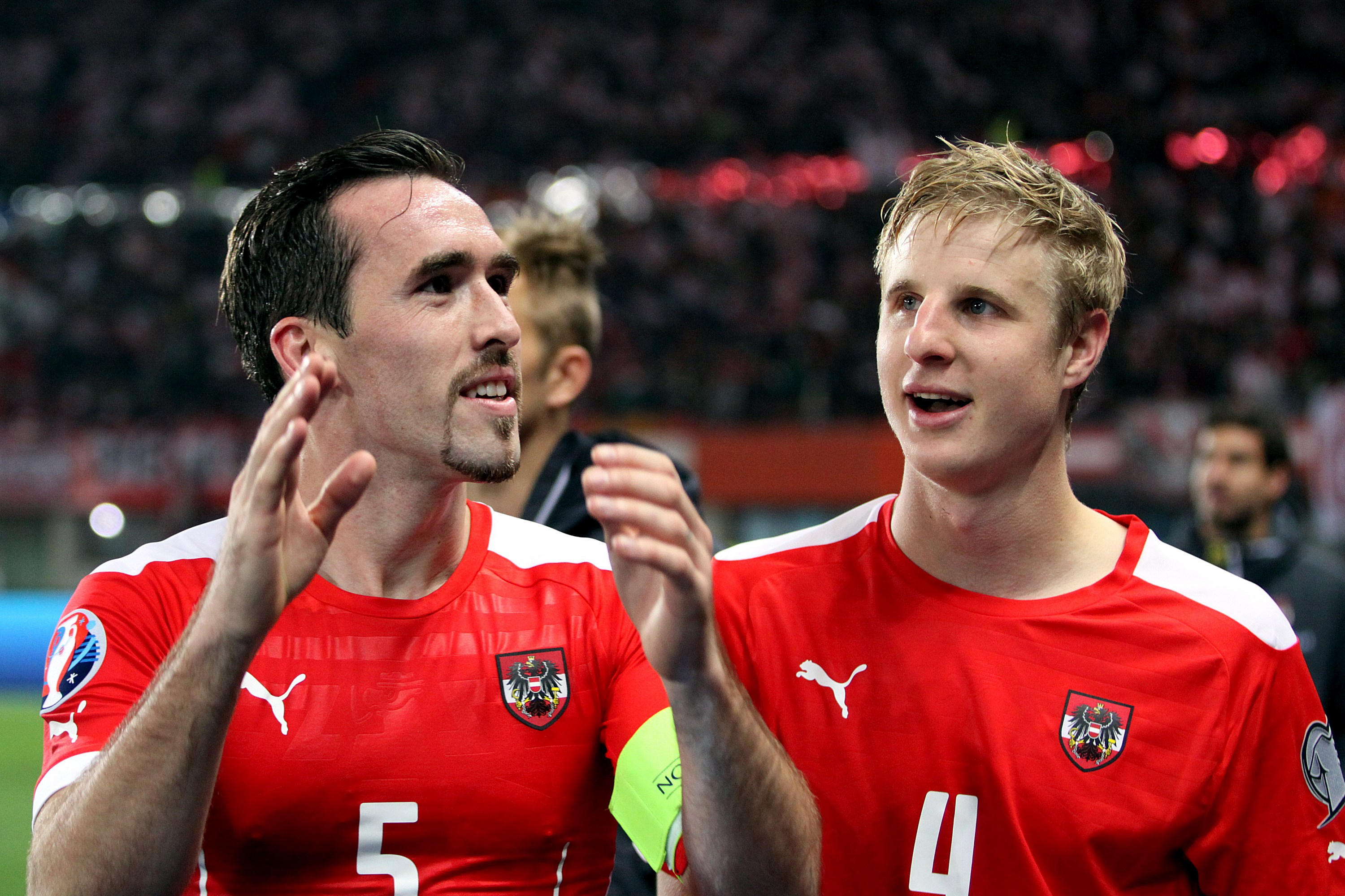 UEFA Euro 2016 qualifying: Austria vs. Russia (1:0 / 0:0) at 2014-11-15 in the Ernst-Happel-Stadion in Vienna. – The photo shows Christian Fuchs (left) and Martin Hinteregger (right, both Austria).